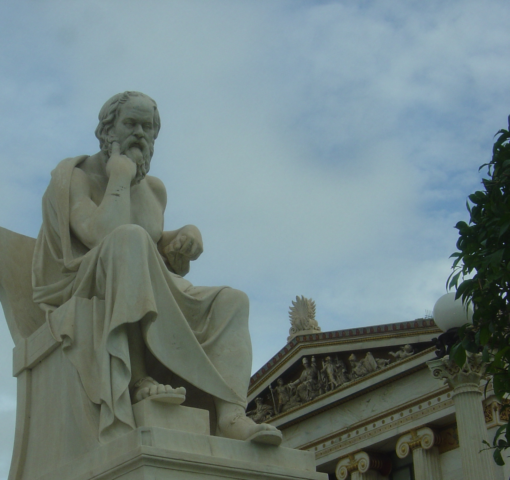 Socrates by Leonidas Drosis, Athens - Academy of Athens